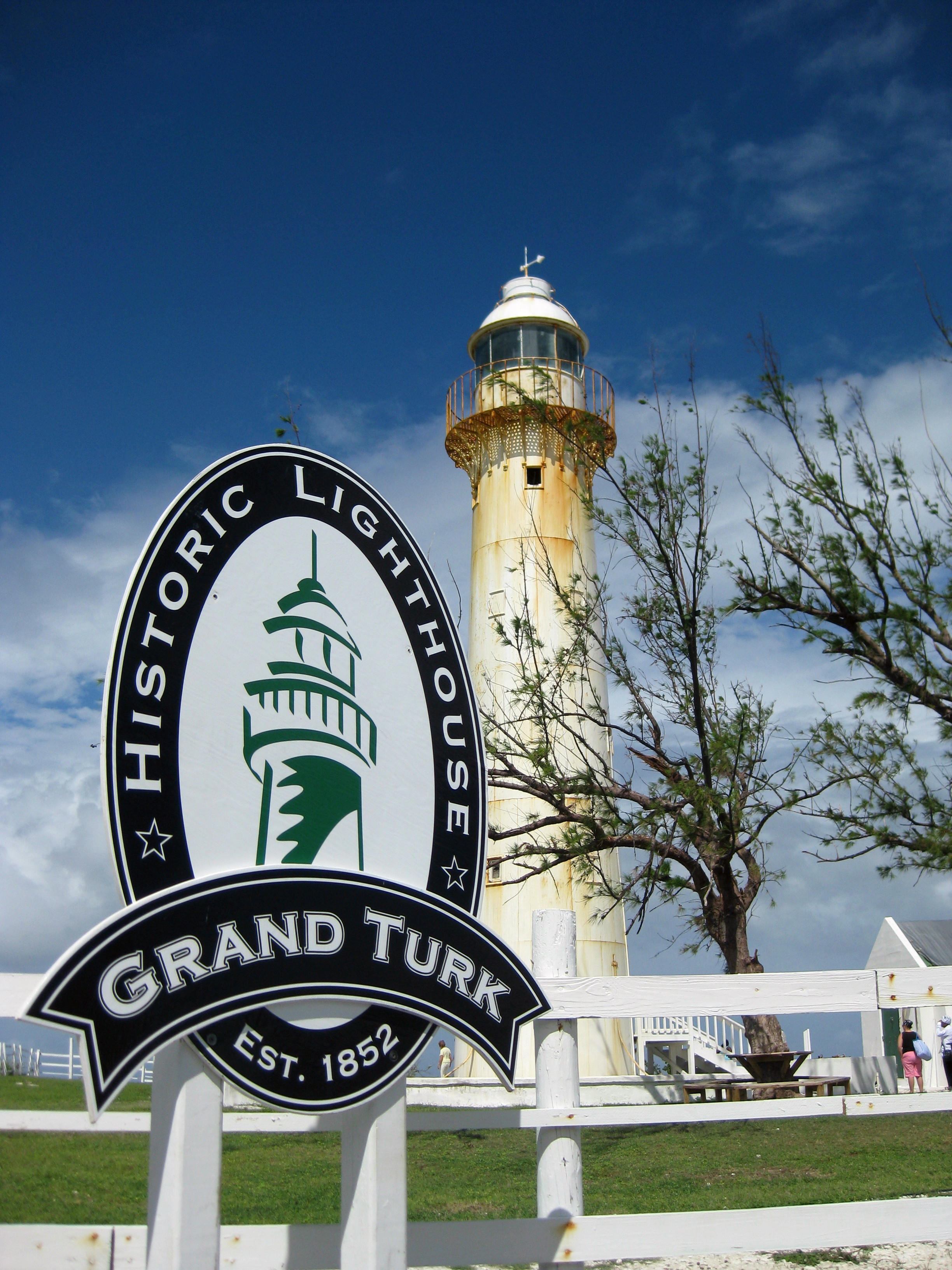 Historic Lighthouse Park on the northern tip of Grand Turk Island is the home to the Grand Turk Light, a beacon to ocean vessels since 1852.